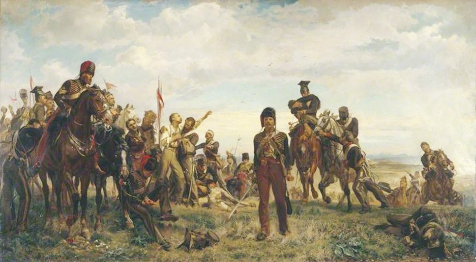 'Balaclava' by Elizabeth Thompson, Lady Butler (1846-19330 in 1876